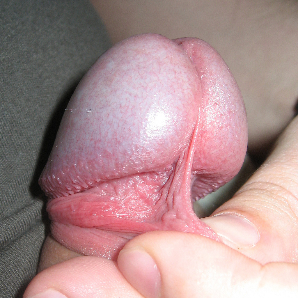 Sulcus coronarius of an uncircumcised man, the Frenulum connects the foreskin and the glans penis.